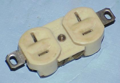 NEMA 2-20 Author = Robert Casey